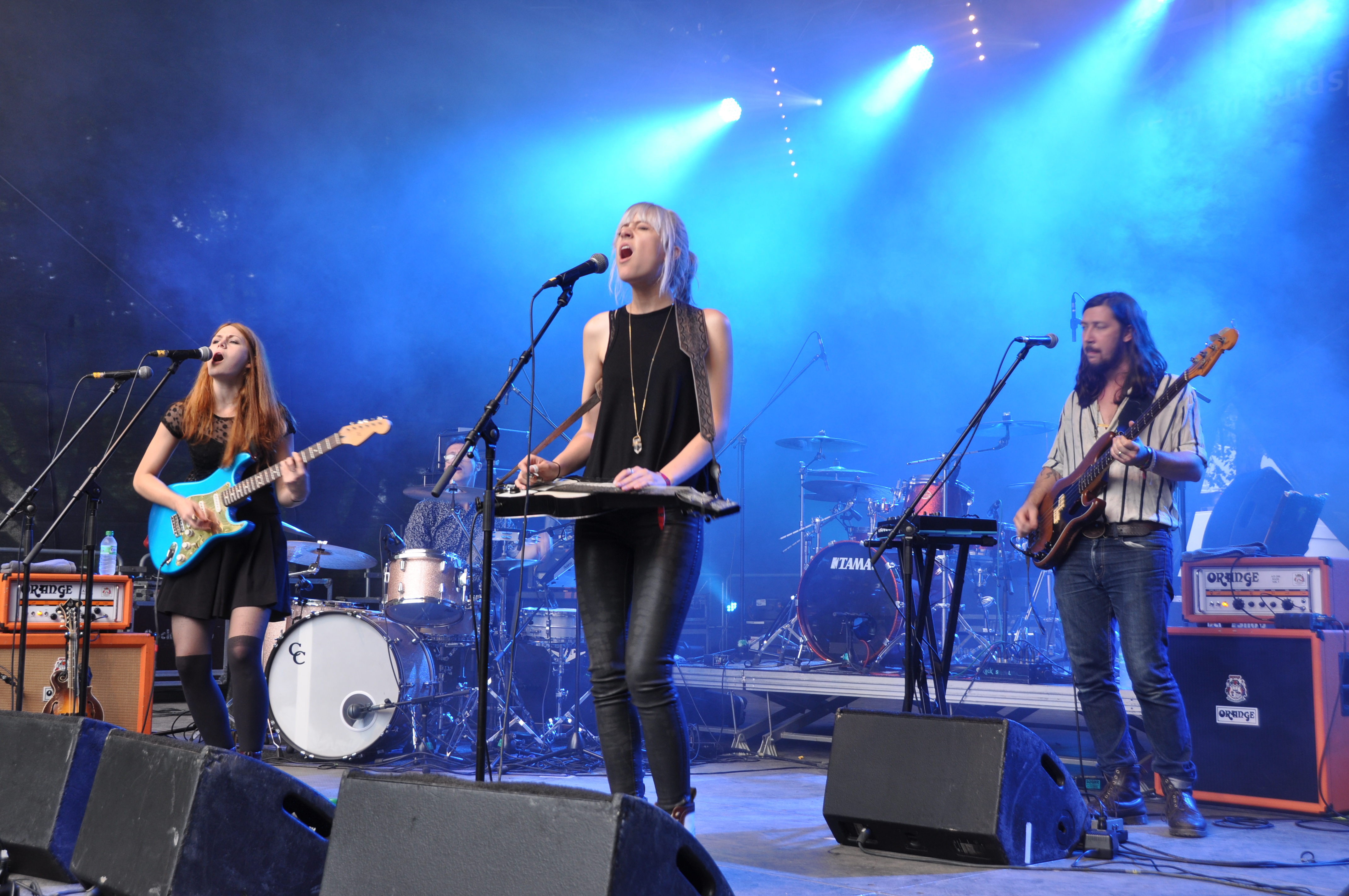 Larkin Poe, performing at the 1st Blacksheep Festival in the castle yard / castle park of Bad Rappenau-Bonfeld (Germany)